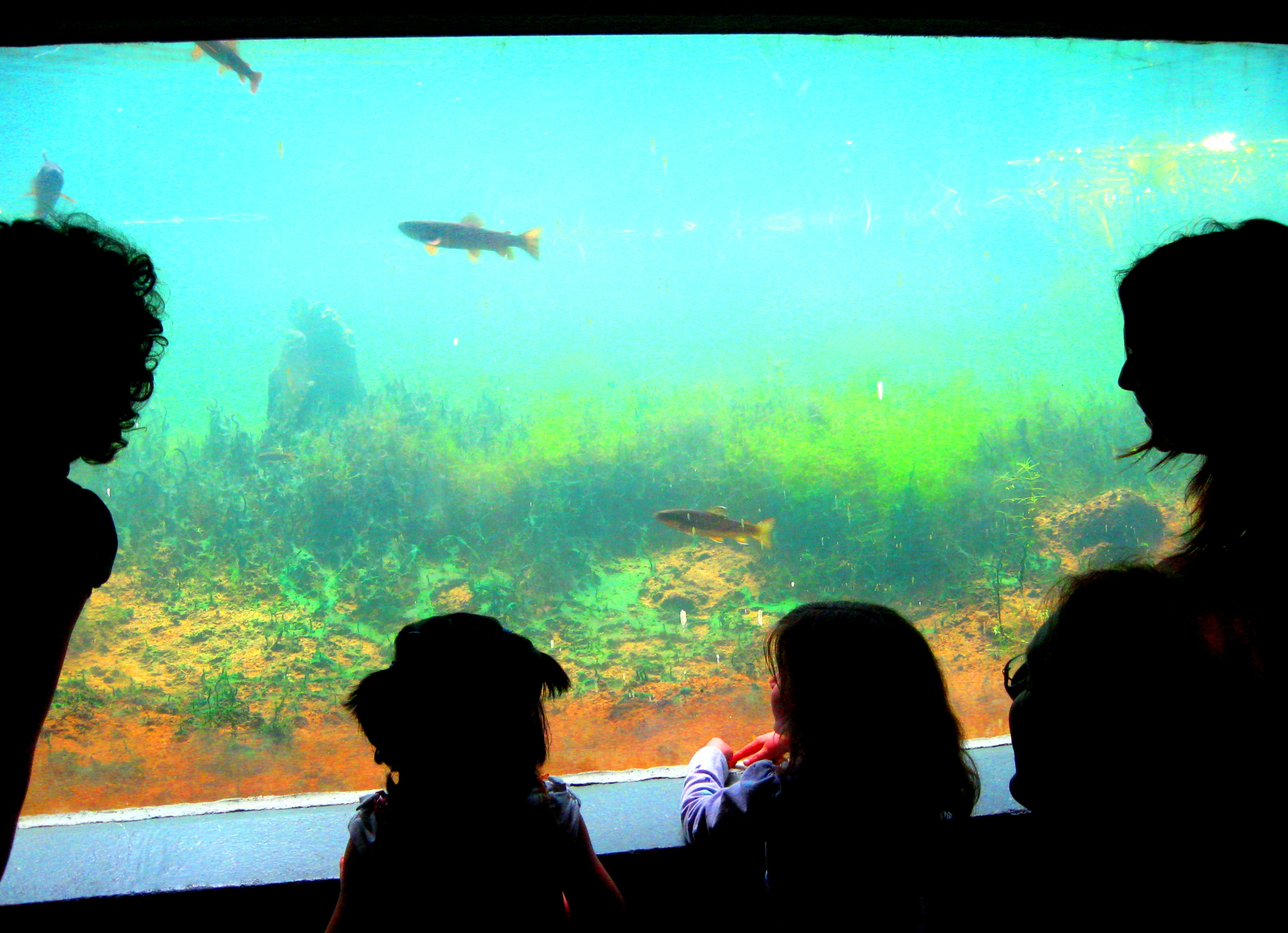 Watching trout through the windows of the Fluvarium into Nagle's Hill Brook.